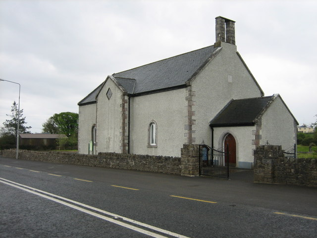 The Douglas Hyde Centre. Dr Douglas Hyde was Ireland's first President and this permanent exhibition on his life and work is housed in the former Church of Ireland church at Portahard, where his father was once rector. Dr Hyde was a prominent scholar and his collection of prose and poetry can be seen here, along with such personal items as his gavel and walking stick. The centre has also the letter nominating him as President in 1938. Outside, the Gairdin an Chraoibhin (Garden of the Little Branch) has trees and shrubs that are sacred in Celtic mythology. Douglas Hyde's grave is at the rear of the church.